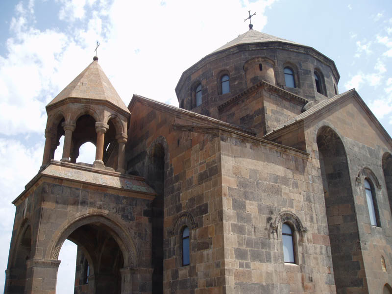 Saint Hripsime church in Echmiadzin.